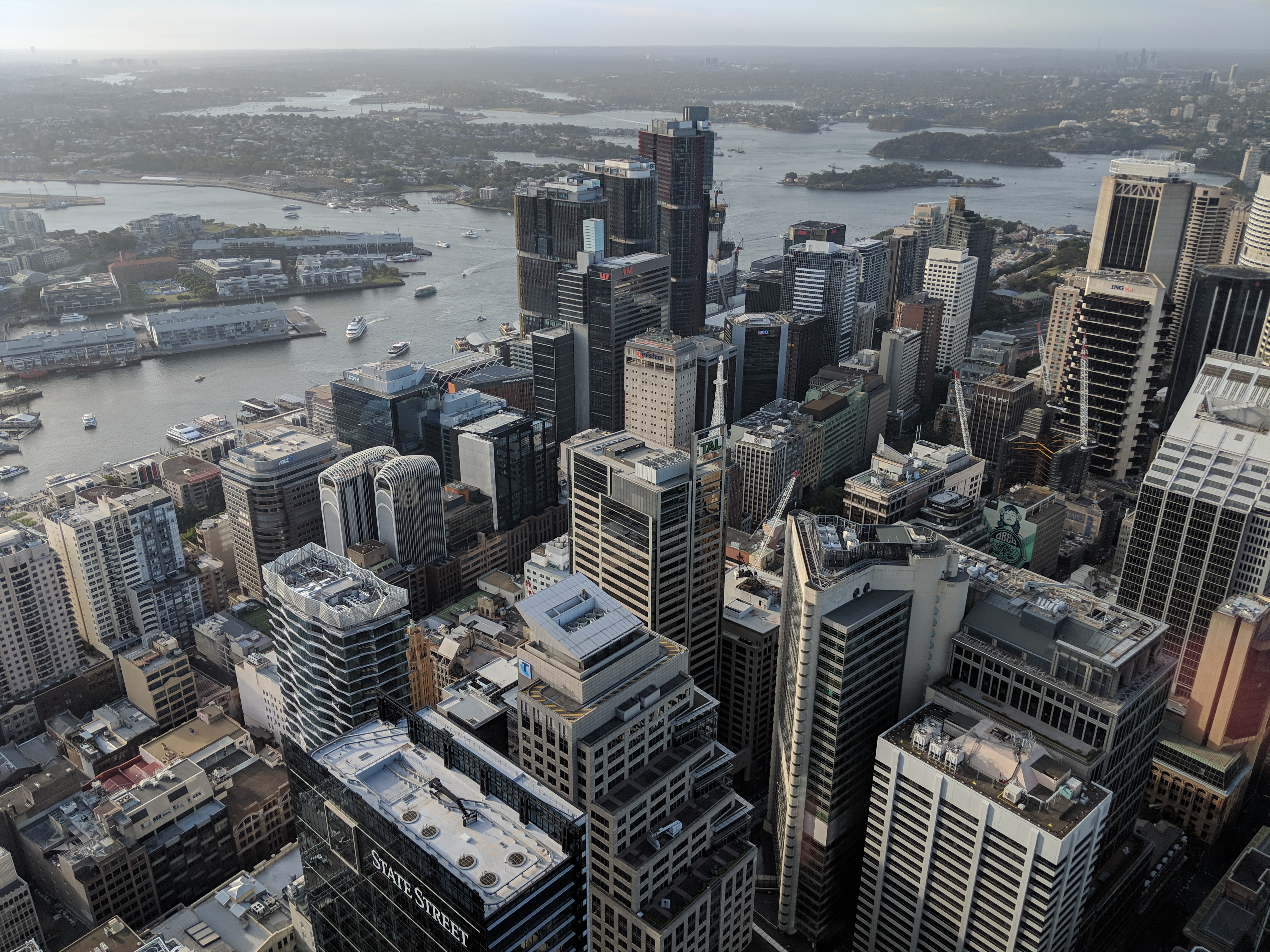 Sydney CBD from Sydney Tower Observation Deck